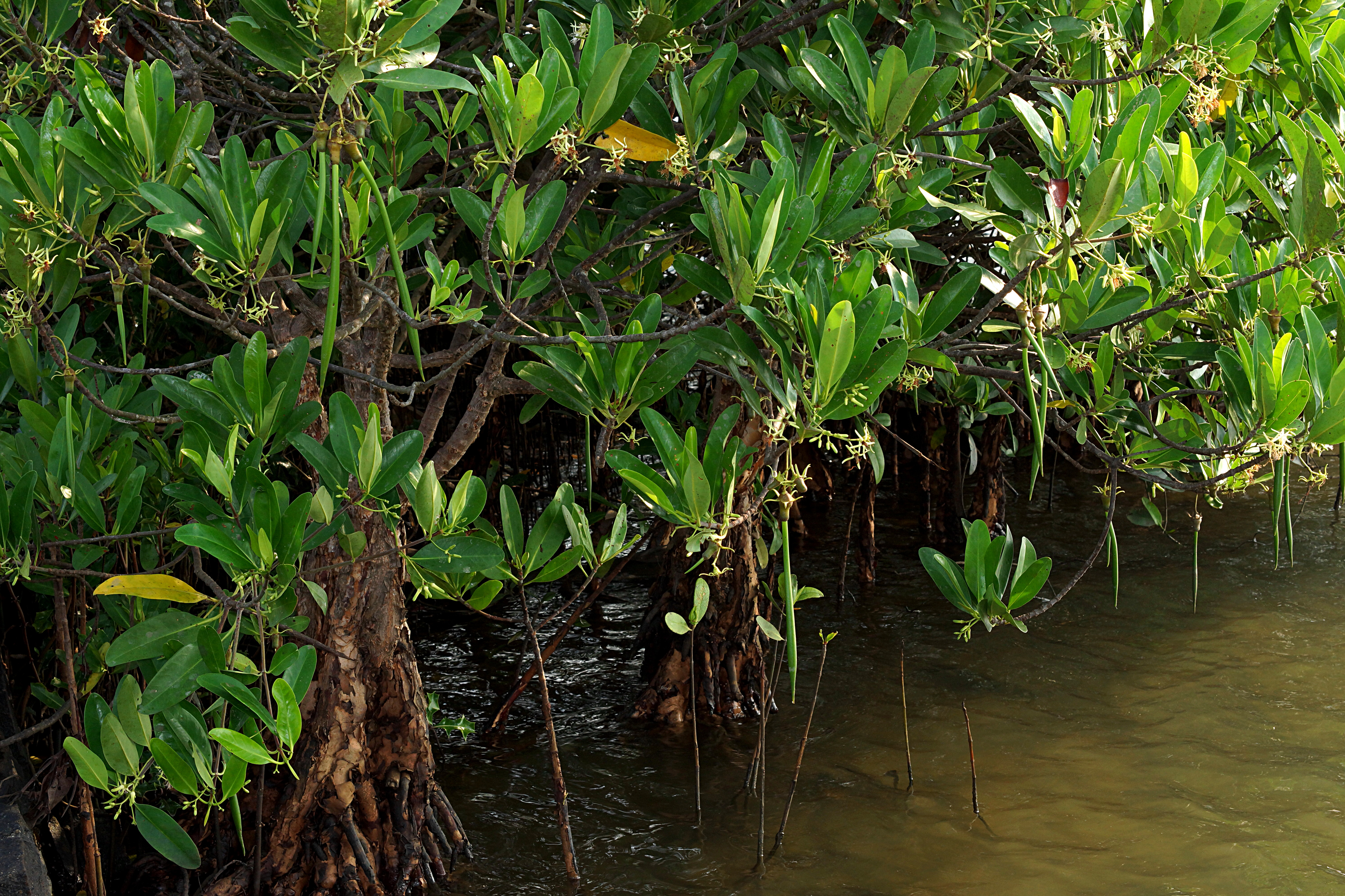 Kerala,India